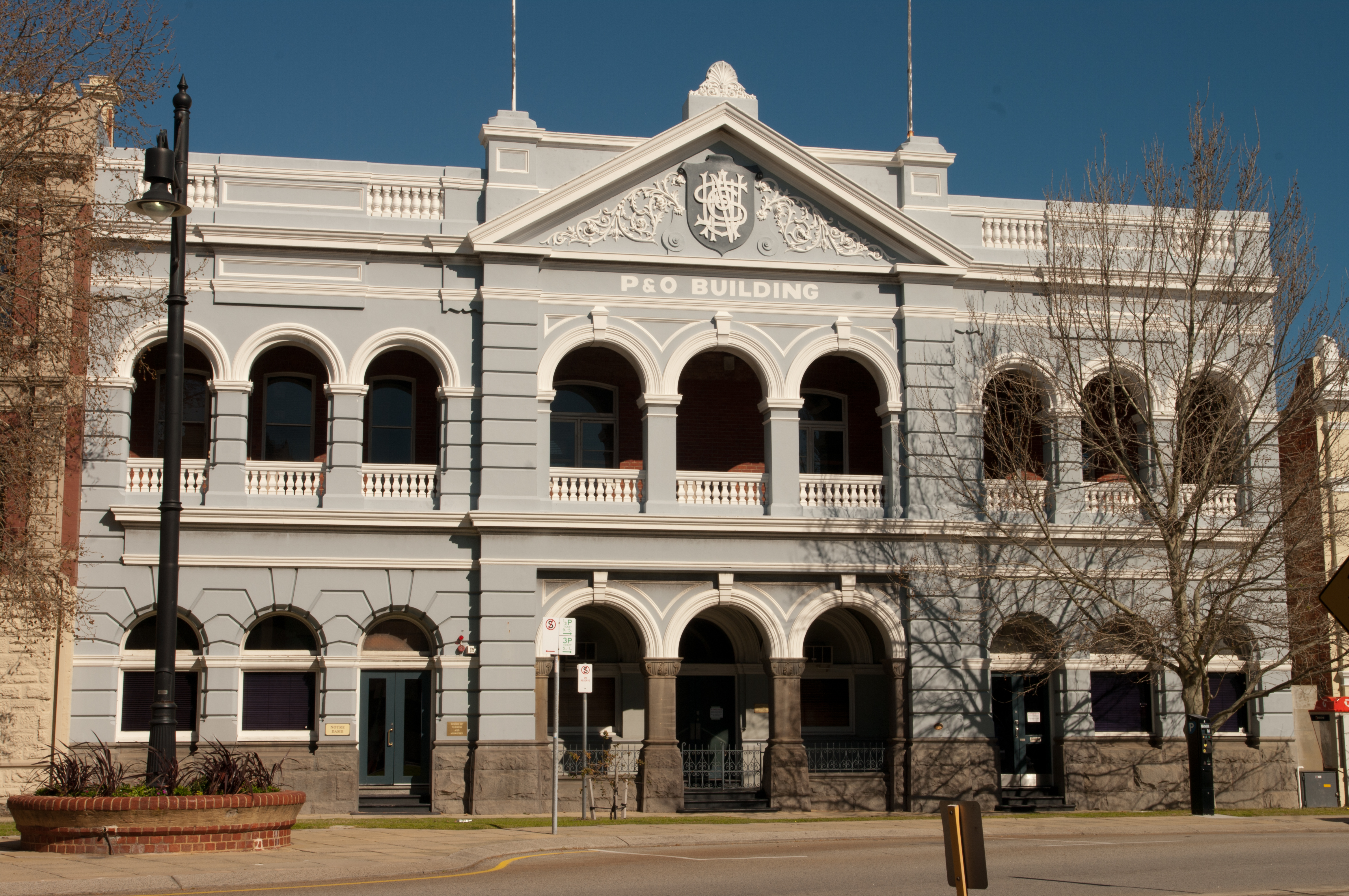 P&O building